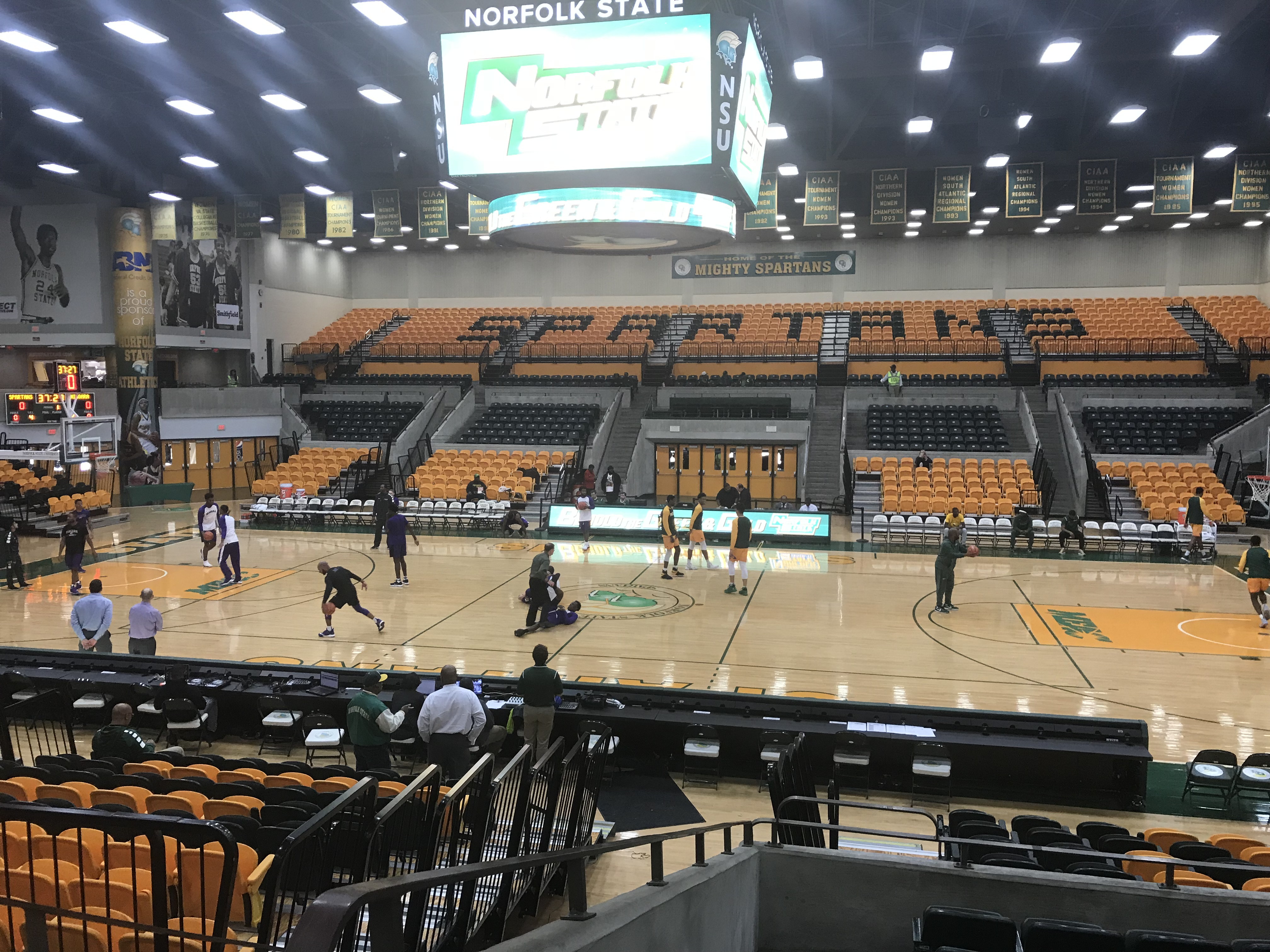 The interior of Echols Hall in Norfolk, Virginia